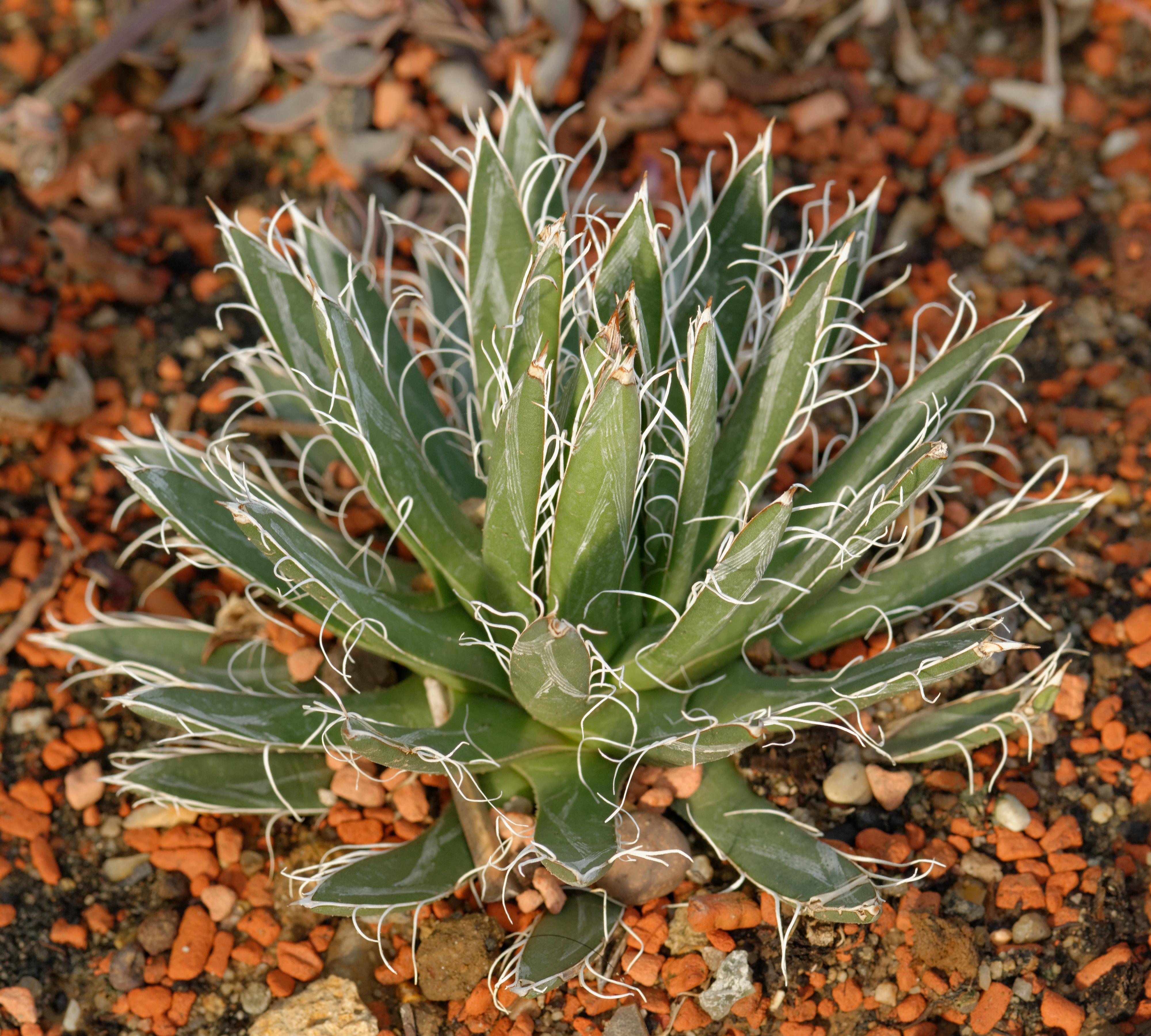 Agave toumeyana in the Deserts greenhouse at the Jardin des Plantes in Paris.